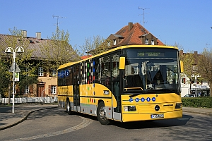 bodo-Bus